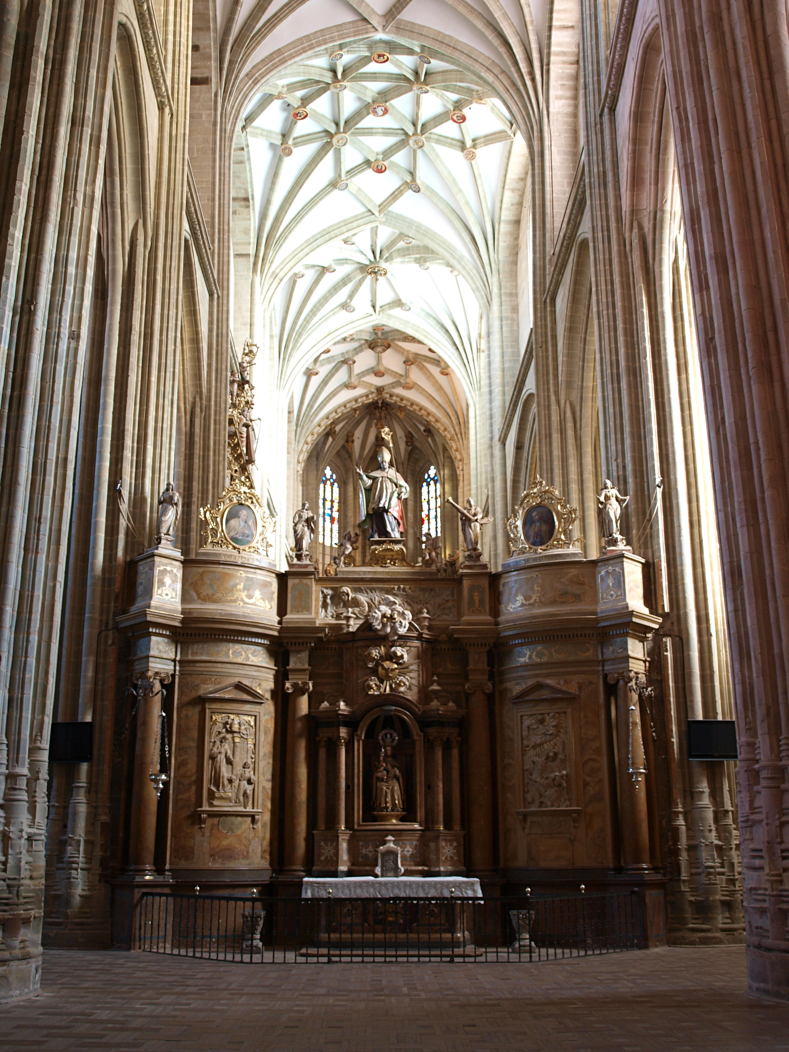 Astorga Cathedral, Astorga (Province of León, Spain).